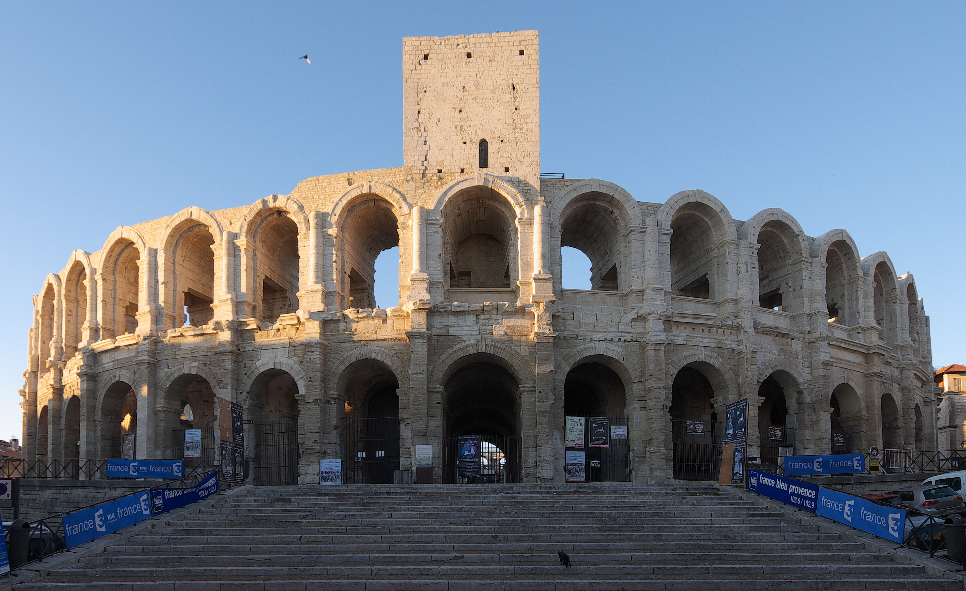 France, Arles, Arena North side after restauration works 2013